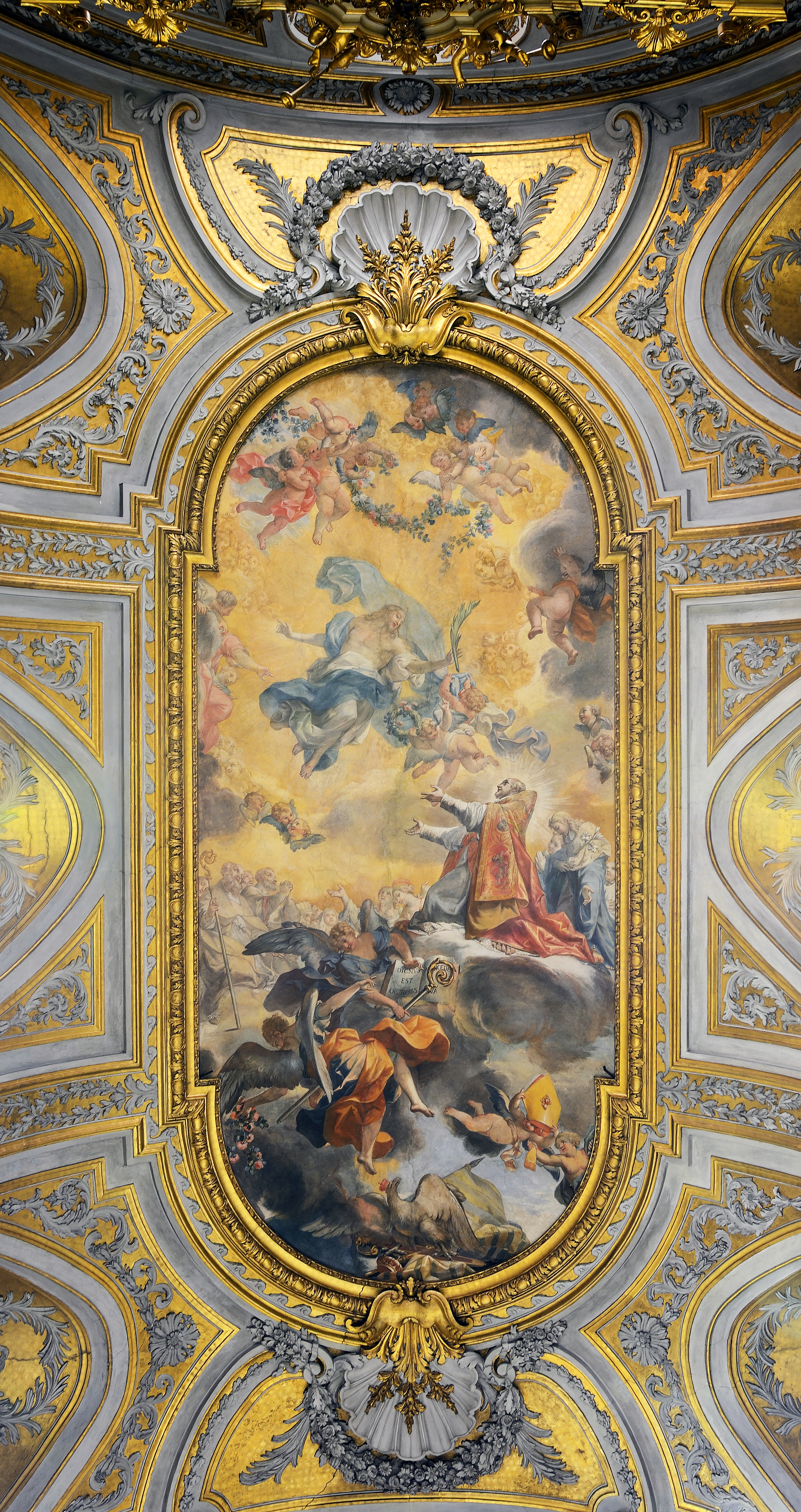 San Stanislao dei Polacchi (Rome) - Ceiling